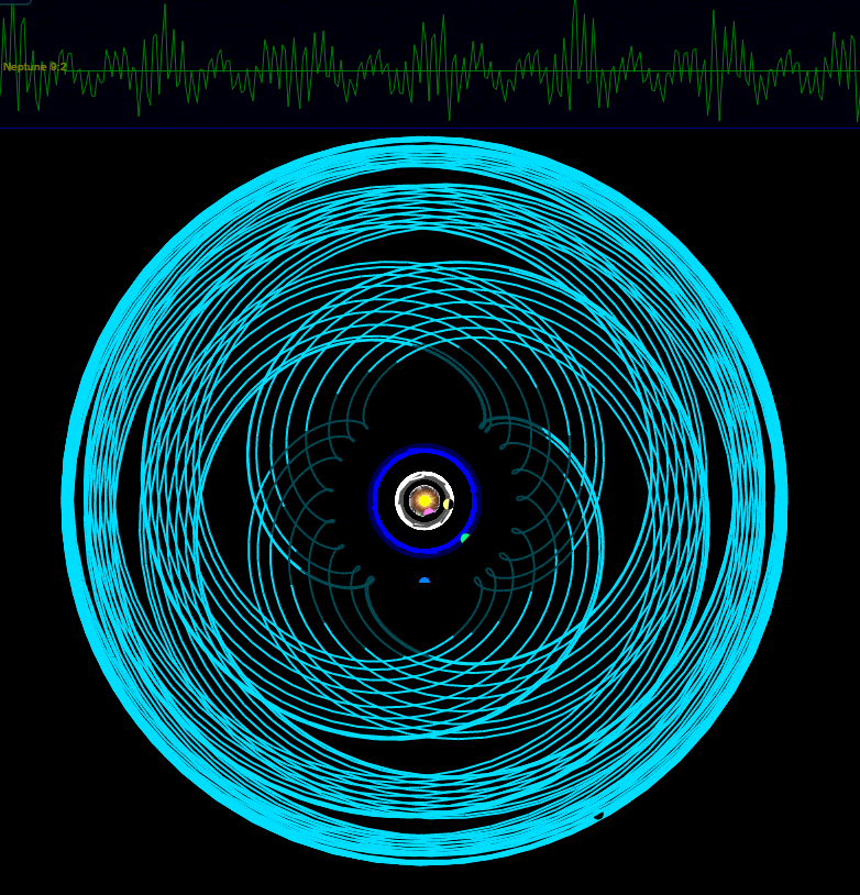 2015 RR245's orbit librating in a 2:9 resonance with Neptune